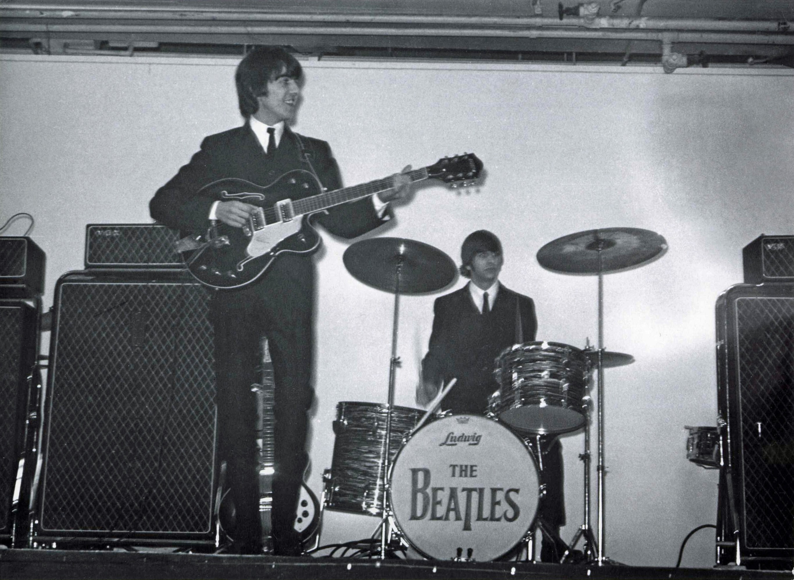 Creator: Nick Newbery Date: 2nd November 2015. Original format: Photographic print. Description: Photograph showing George Harrison and Ringo Starr playing a show at the King's Hall Belfast in November 1964. PRONI ref: D4542/2/1/3A Picture Credit: Nick Newbery Copying and copyright: Please For Copy Orders, contact: For fees and charges